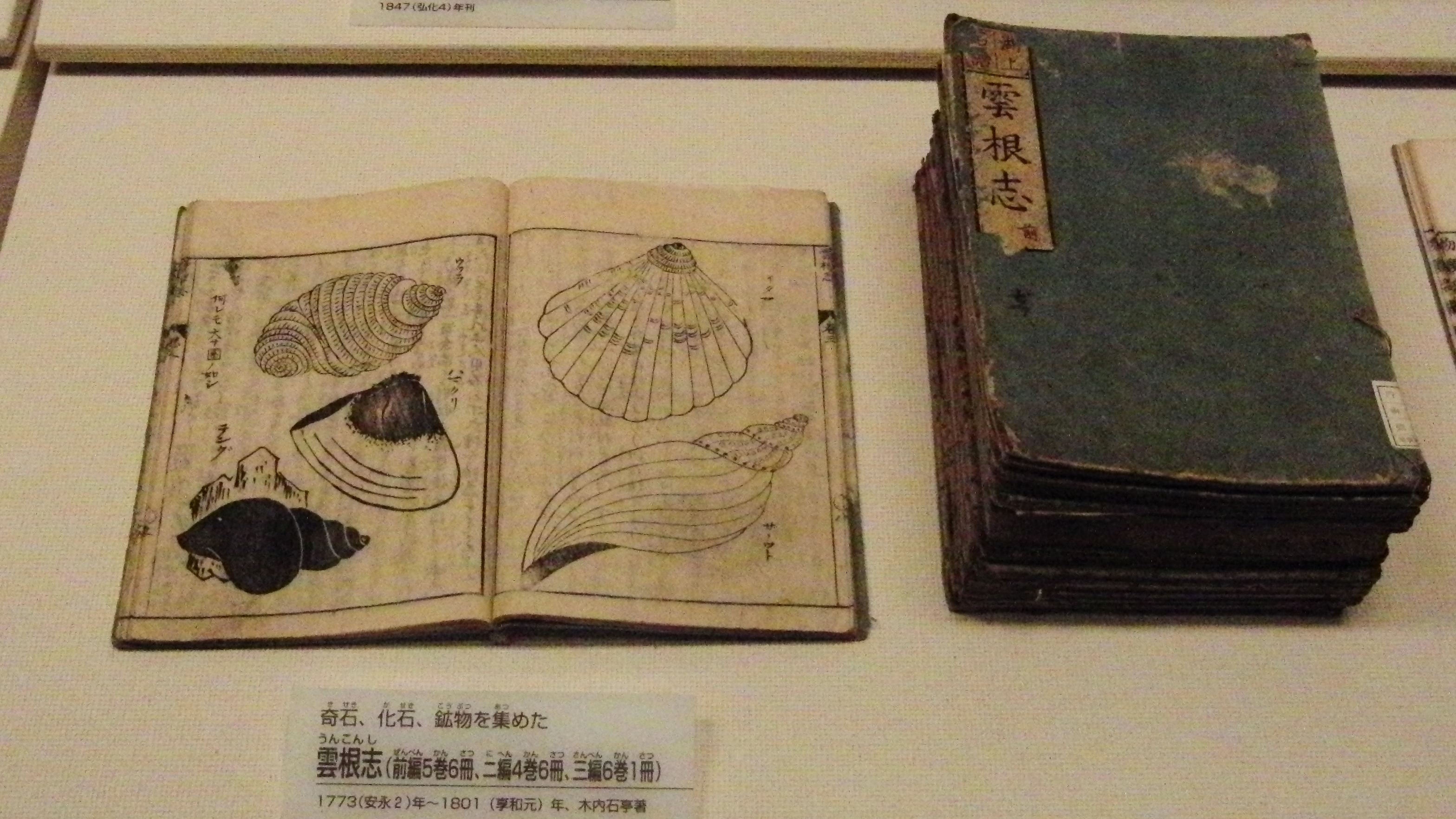 "Unkonshi", Japanese book about stone, fossiles and minerals written by Sekitei KINOUCHI during 1773 - 1801. Exhibit in the National Museum of Nature and Science, Tokyo, Japan.